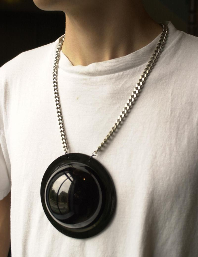 Sousveillance as a Surveillance-Situationist Inquiry This picture, of a necklace webcam, was taken in a stairwell in a building on St. George Street in Toronto, where there was a nice large and well-defined window. This seemed to be the best place to photograph the dome and show its shape nicely. The sousveillance dome is a kind of Situationist critique of surveillance, in the manner of an inverse surveillance. By re-situating the everyday familiar objects of ubiquitous surveillance ("eye in the sky") down at human level, we reverse the Sur (French for "above") to Sous (French for "below"). A higher resolution picture of this and others like it is available at A scholarly reference can be found in some recent Leonardo articles. File creation date: -rw-r--r-- 1 mann 871434 Jul 18 2001 neclacedome.jpg